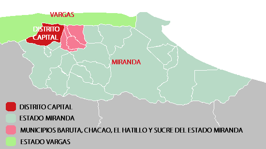 Map of metropolitan Caracas and the Venezuelan Capital District — Venezuela. Political subdivisions map.